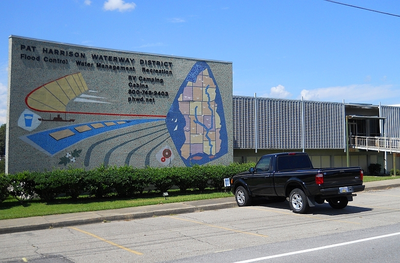 Former Pat Harrison Waterway District headquarters building located in Hattiesburg, Mississippi, USA. The building and its mural were demolished in 2018.[1]